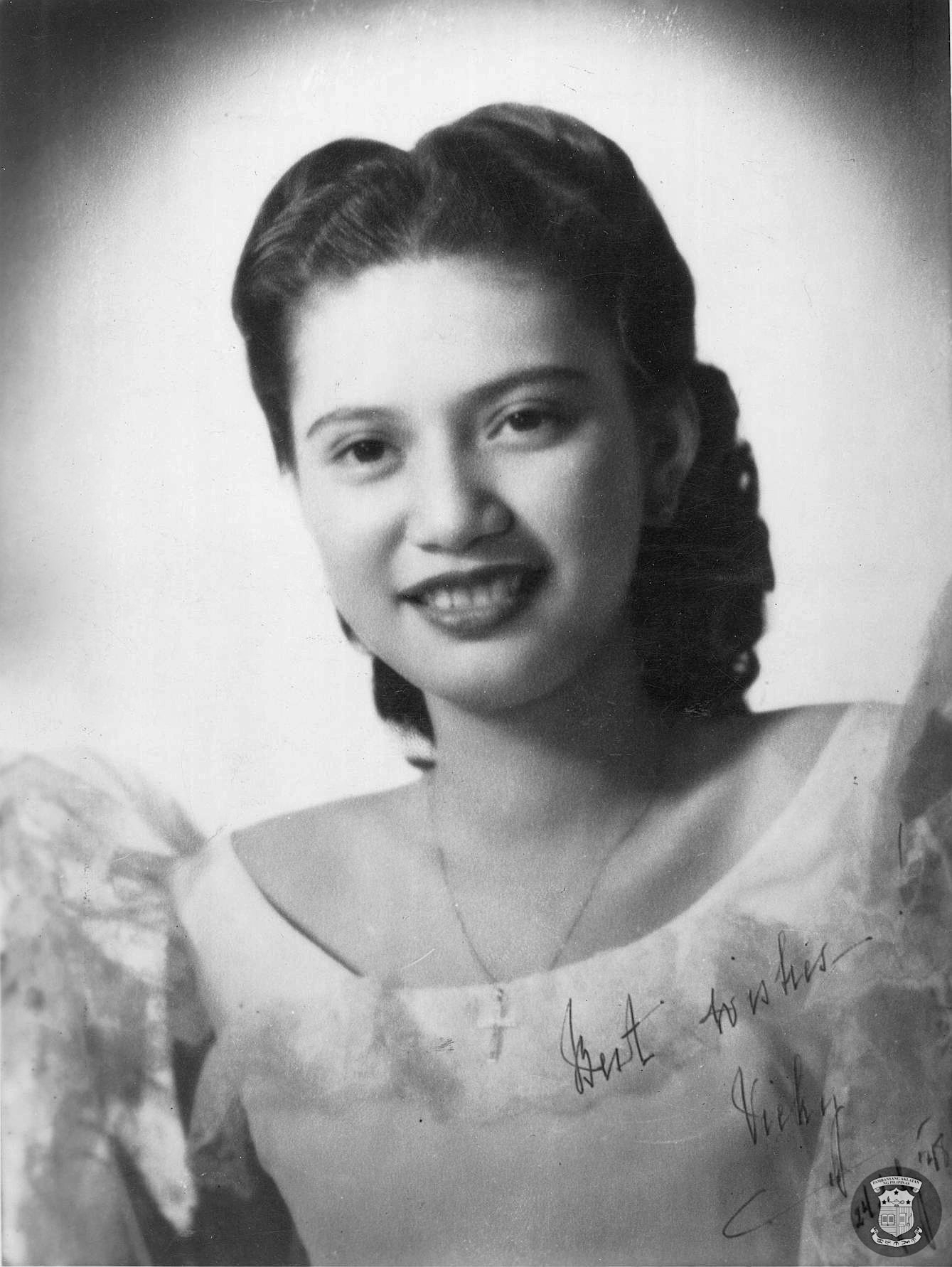 Photo of former Philippine First Lady Vicky Quirino